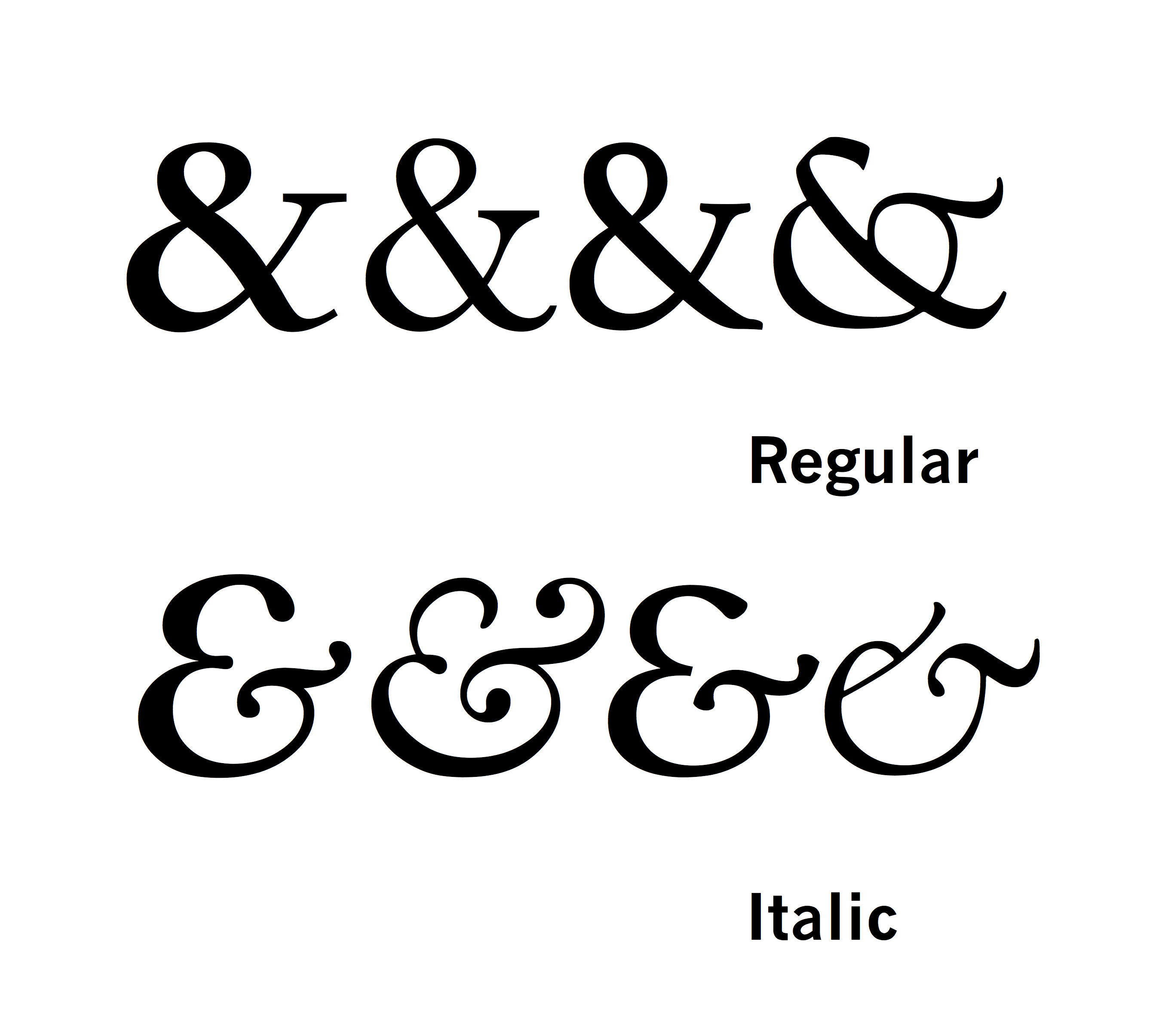 Four ampersands in regular and italic styles. Left to right: serif fonts Bembo, Baskerville MT, Athelas and FB Californian.